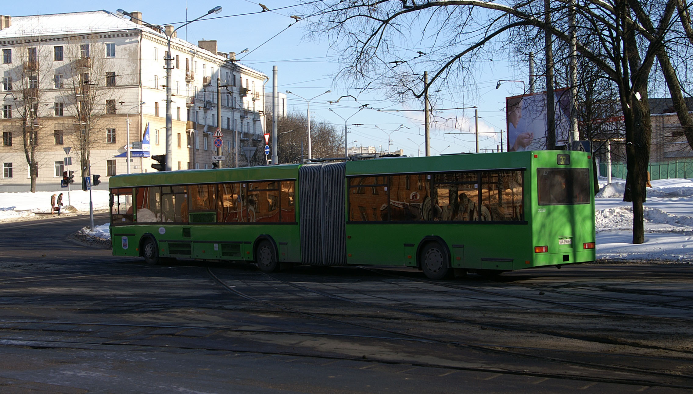 Bus "MAZ 105" articulated bus in Minsk, Belarus.